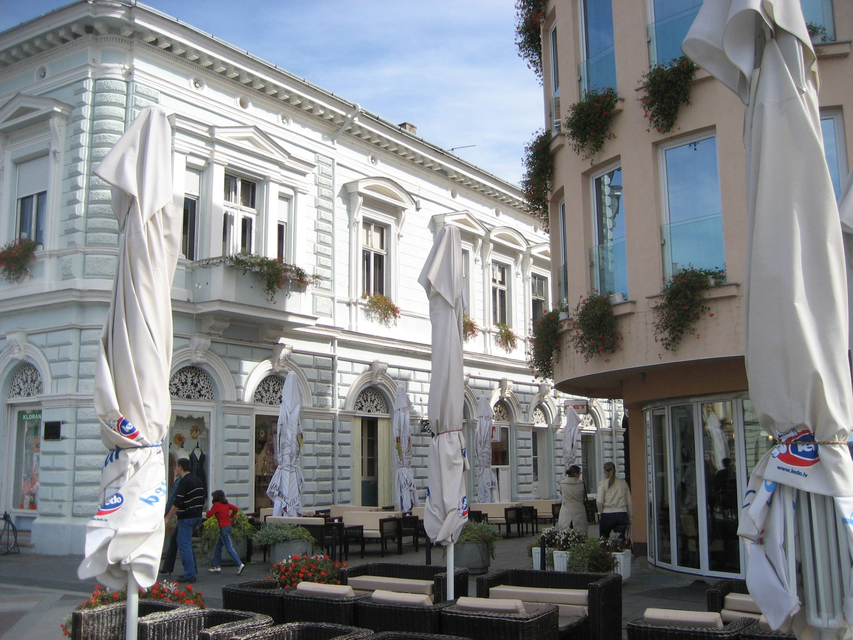 Slavonski Brod, Croatia